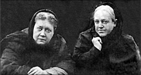 H. P. Blavatsky and V. P. Zhelikhovsky.